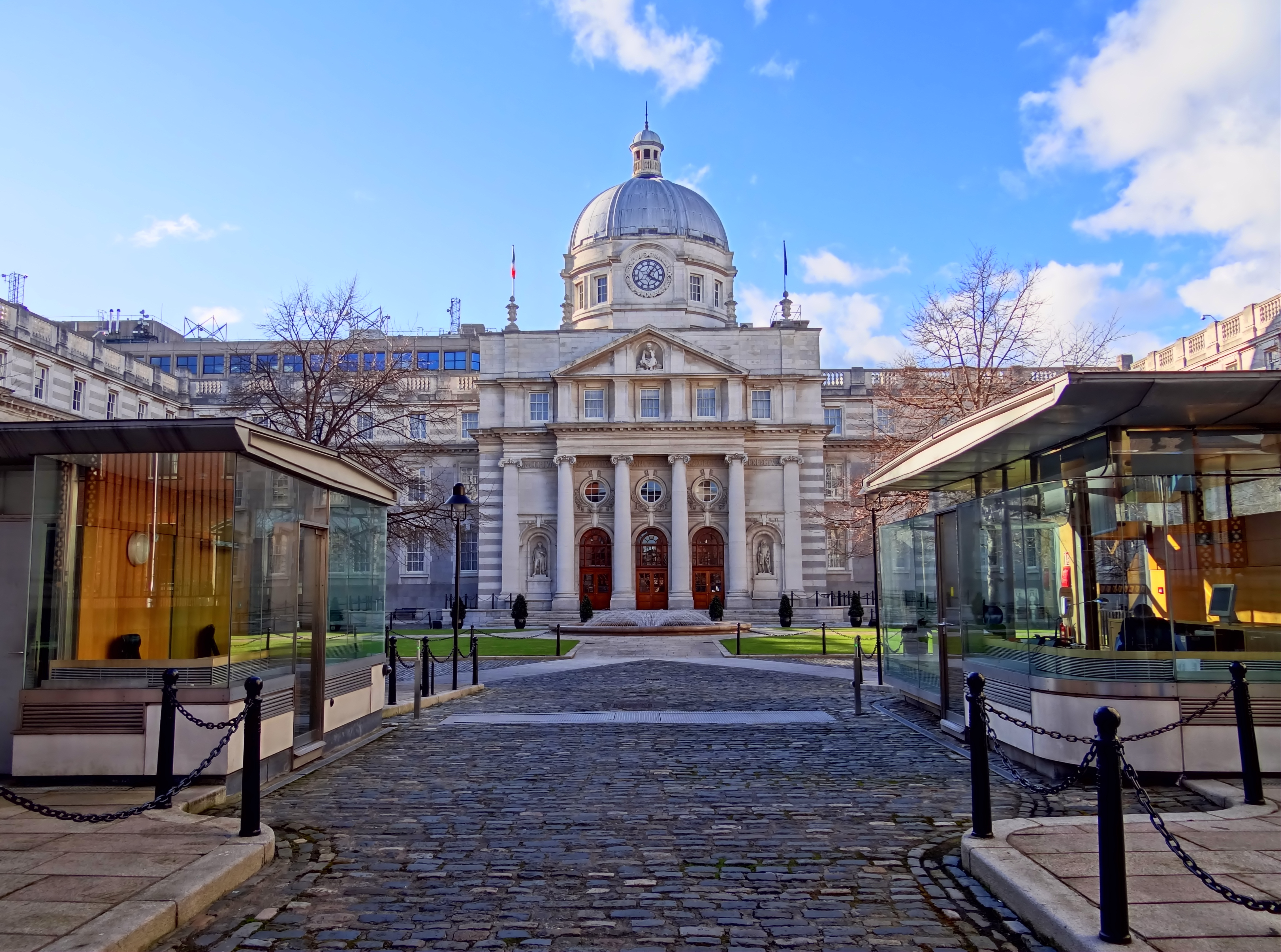 The Department of the Taoiseach photographed when Saint Patrick's Day celebrations were going on outside the gates, leaving the department buildings empty and quiet.